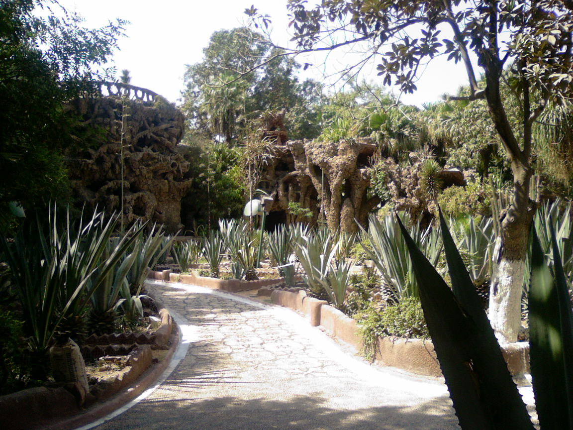 Citadel grotto at Giza zoo